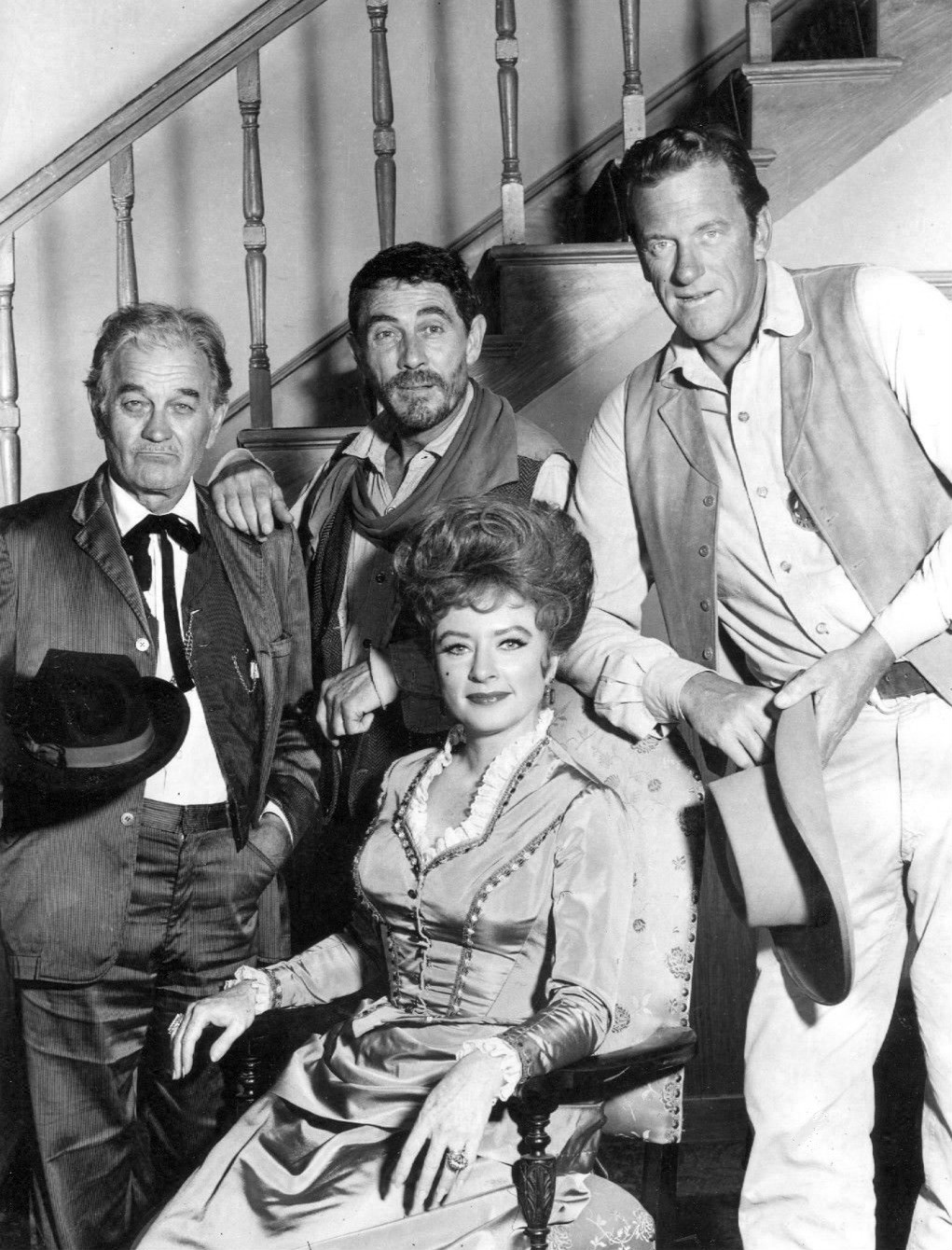 Main cast photo from the television program Gunsmoke in 1967. Standing, from right: James Arness as Marshall Matt Dillon, Ken Curtis as Festus Hagen, and Milburn Stone as "Doc" Adams. Seated: Amanda Blake as "Miss Kitty" Russell.